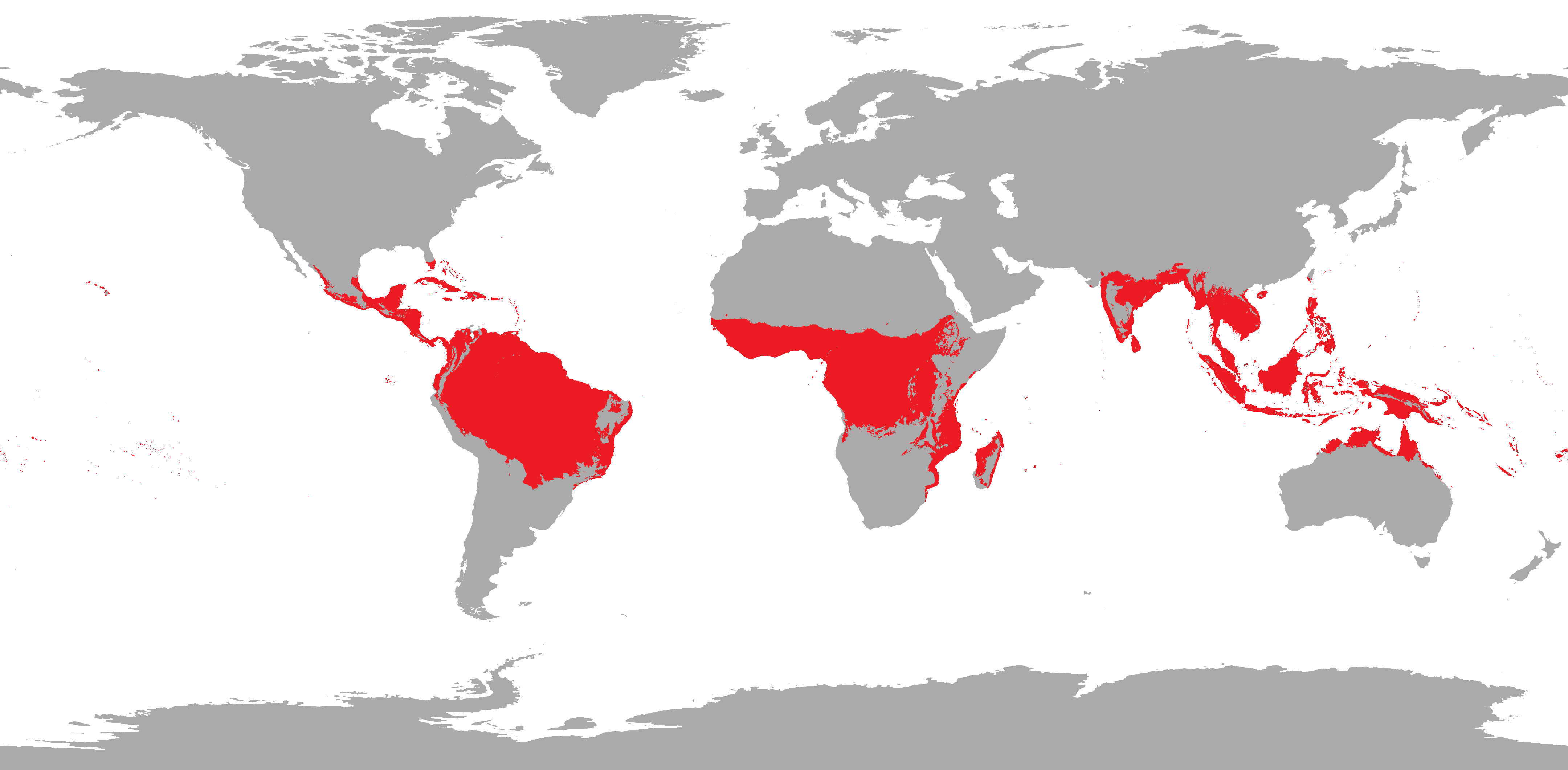 Tropical zones of the earth filled the areas between the subtropical zones Source=Base map derived from File:Subtropical.png.